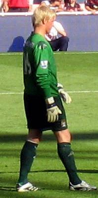 Danish football (soccer) player Kasper Schmeichel